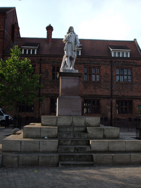 Andrew Marvel statue